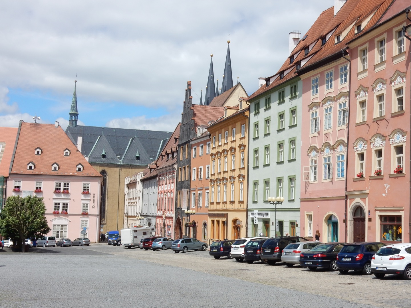 Tržní náměstí (Market Square) in Cheb